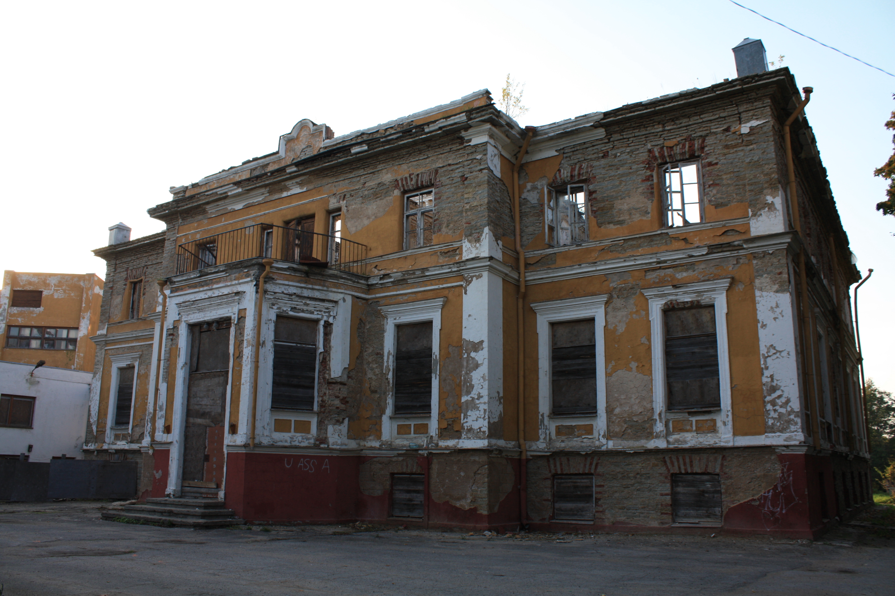 Muraste mõis